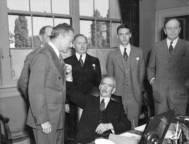 Secretary Swanson presents the Medal of the Second Byrd Antarctic Expedition to Rear Admiral Byrd on 15 October 1937. Looking on from left to right are: Admiral William D. Leahy, USN, Chief of Naval Operations; Mr. William C. Haines, Meteorologist; Dr. Alton A. Lindsey; and Rear Admiral Adolphus Andrews, Chief of the Bureau of Navigation